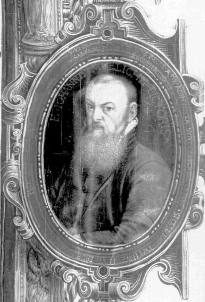 Self portrait of Hans Mielich, illustrator. This illustration is shown on the last page (page 222) of Orlando di Lasso's Bußpsalmen, illustrated by Hans Mielich. The manuscript is archived at the Bavarian State Library under the signature BSB Mus. ms. A I